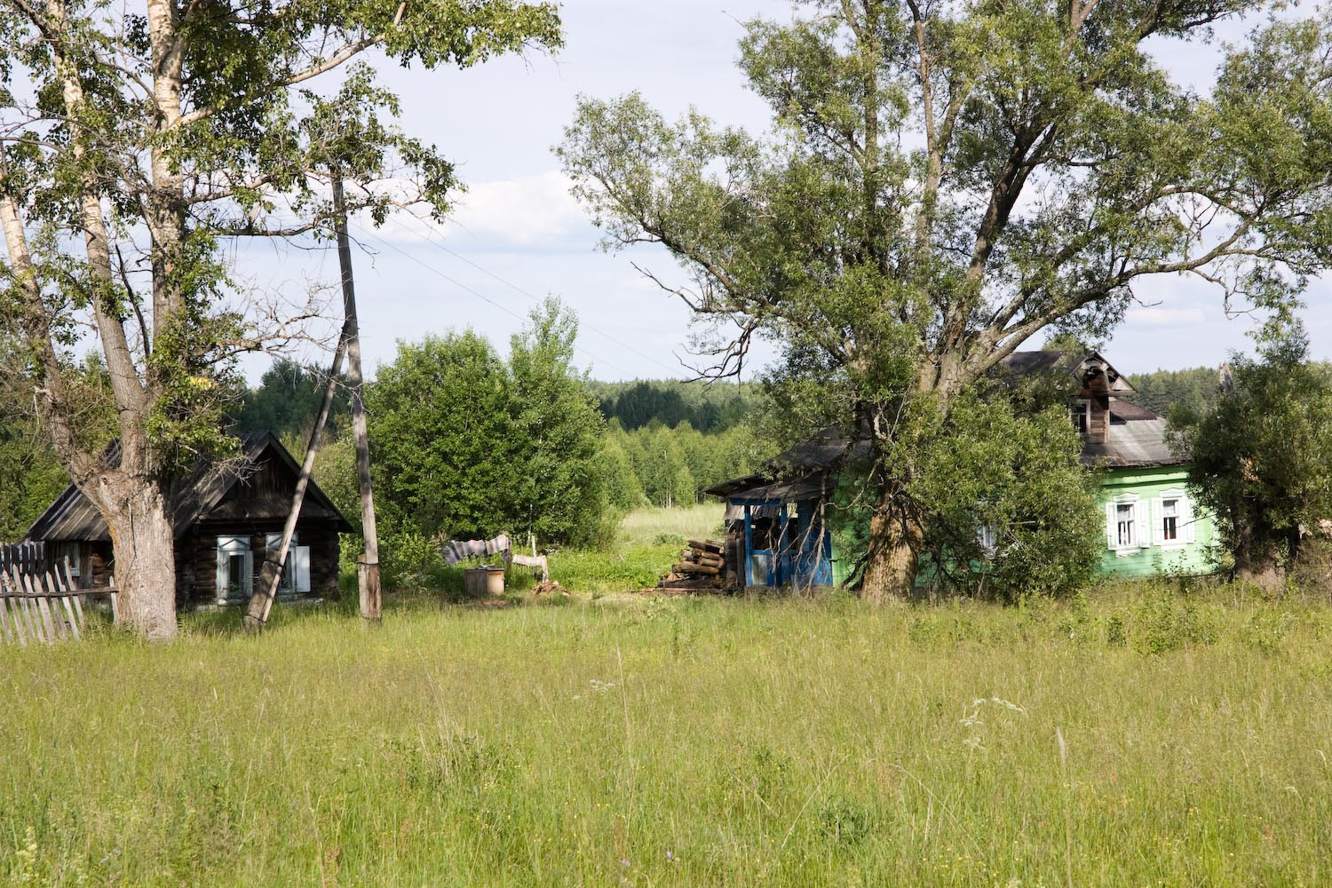 Houses in village Tokovikovo, Nizhny Novgorod Oblast.